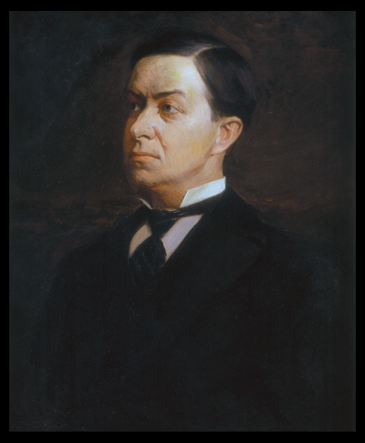 Kentucky Governor William Goebel